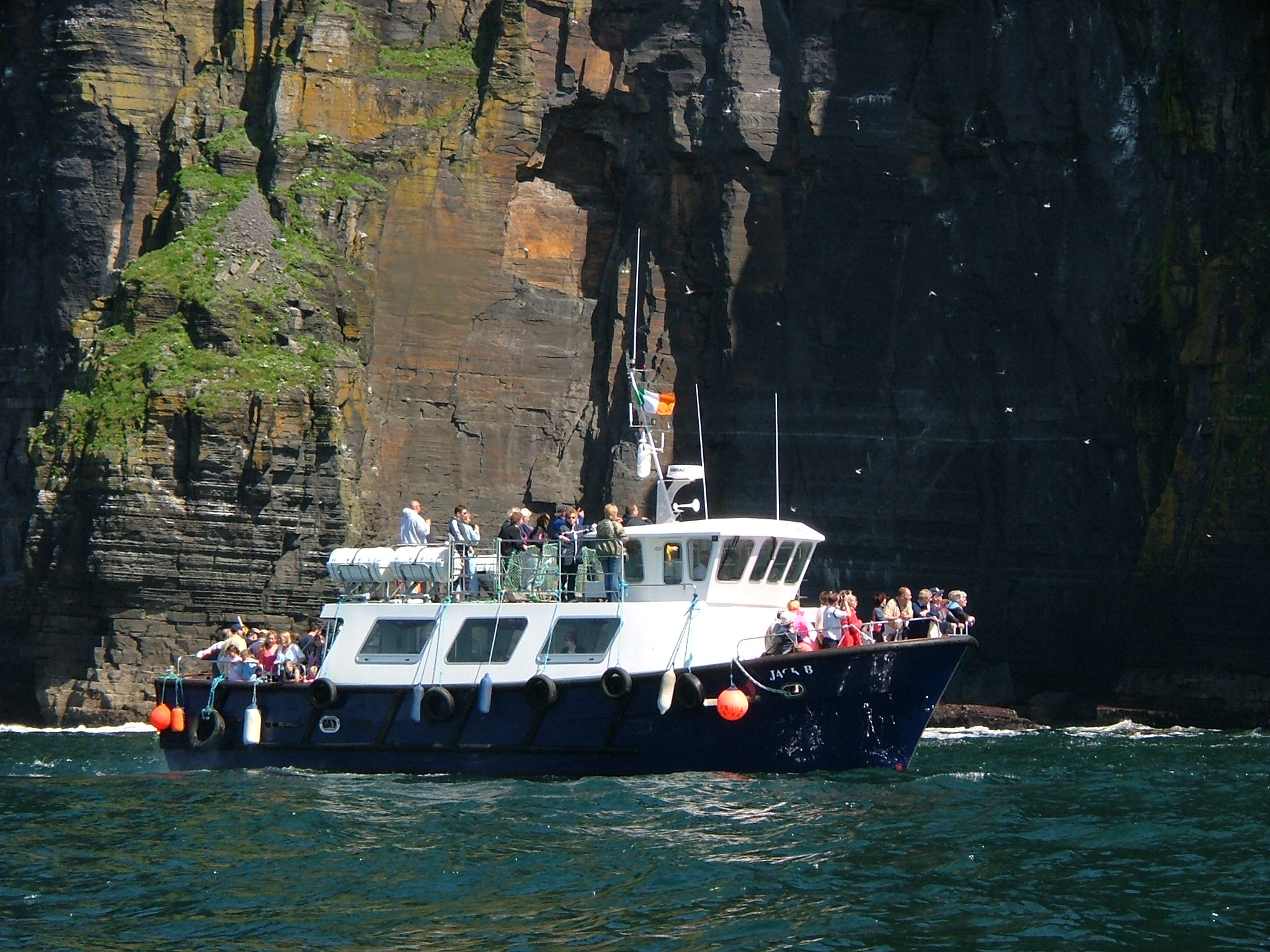 Cliffs and Aran Cruises Cliffs and Aran Cruises have daily trips to view the Cliffs of Moher from sea level, as well as ferry trips to visit the Aran Islands. This is a view of the Jack B at the bottom of the Cliffs of Moher. Summary Cliffs and Aran Cruises Cliffs and Aran Cruises have daily trips to view the Cliffs of Moher from sea level, as well as ferry trips to visit the Aran Islands. This is a view of the Jack B at the bottom of the Cliffs of Moher.